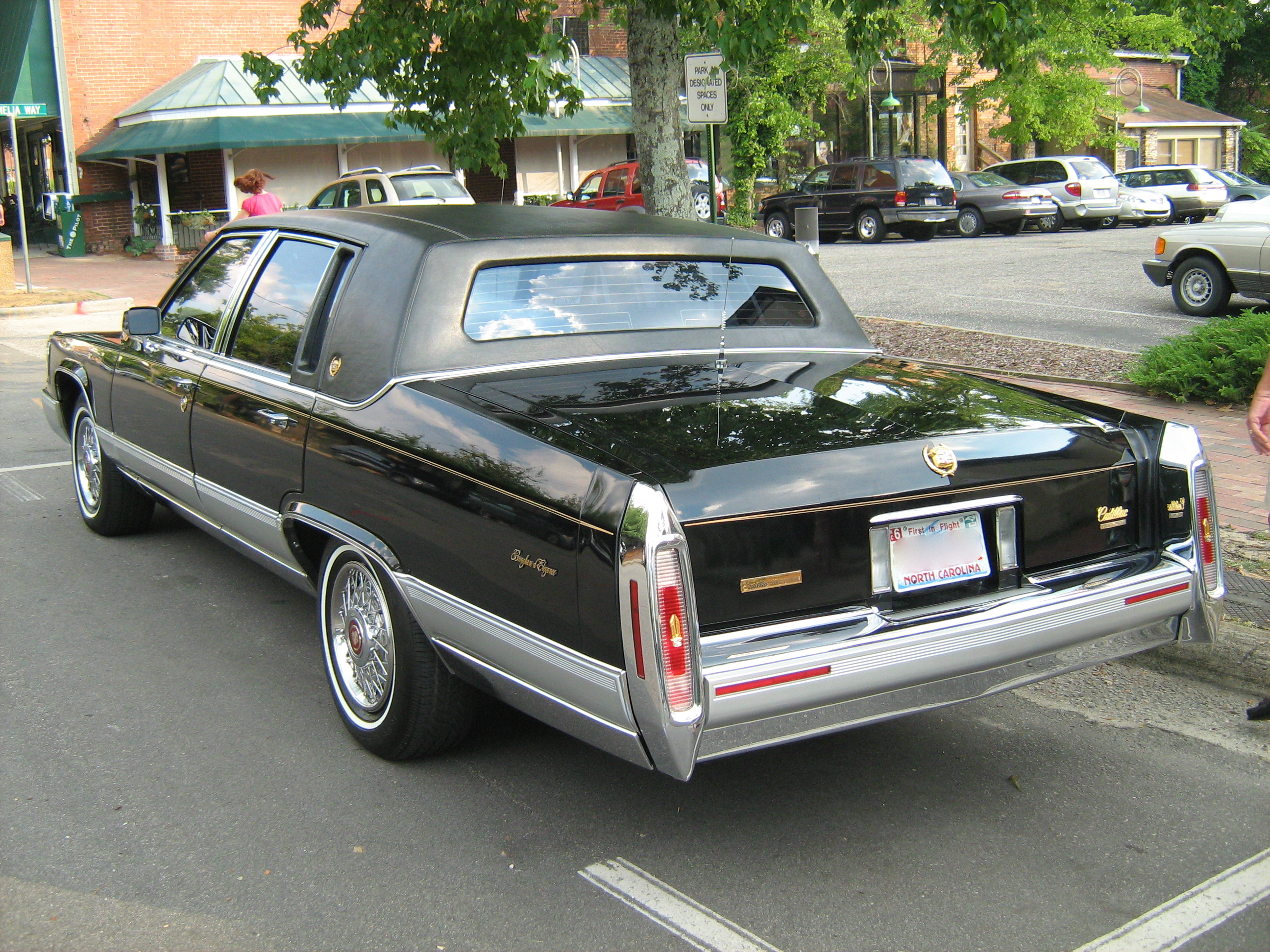 1991 Cadillac Fleetwood d'Elegance, "gold-edition" in triple-black